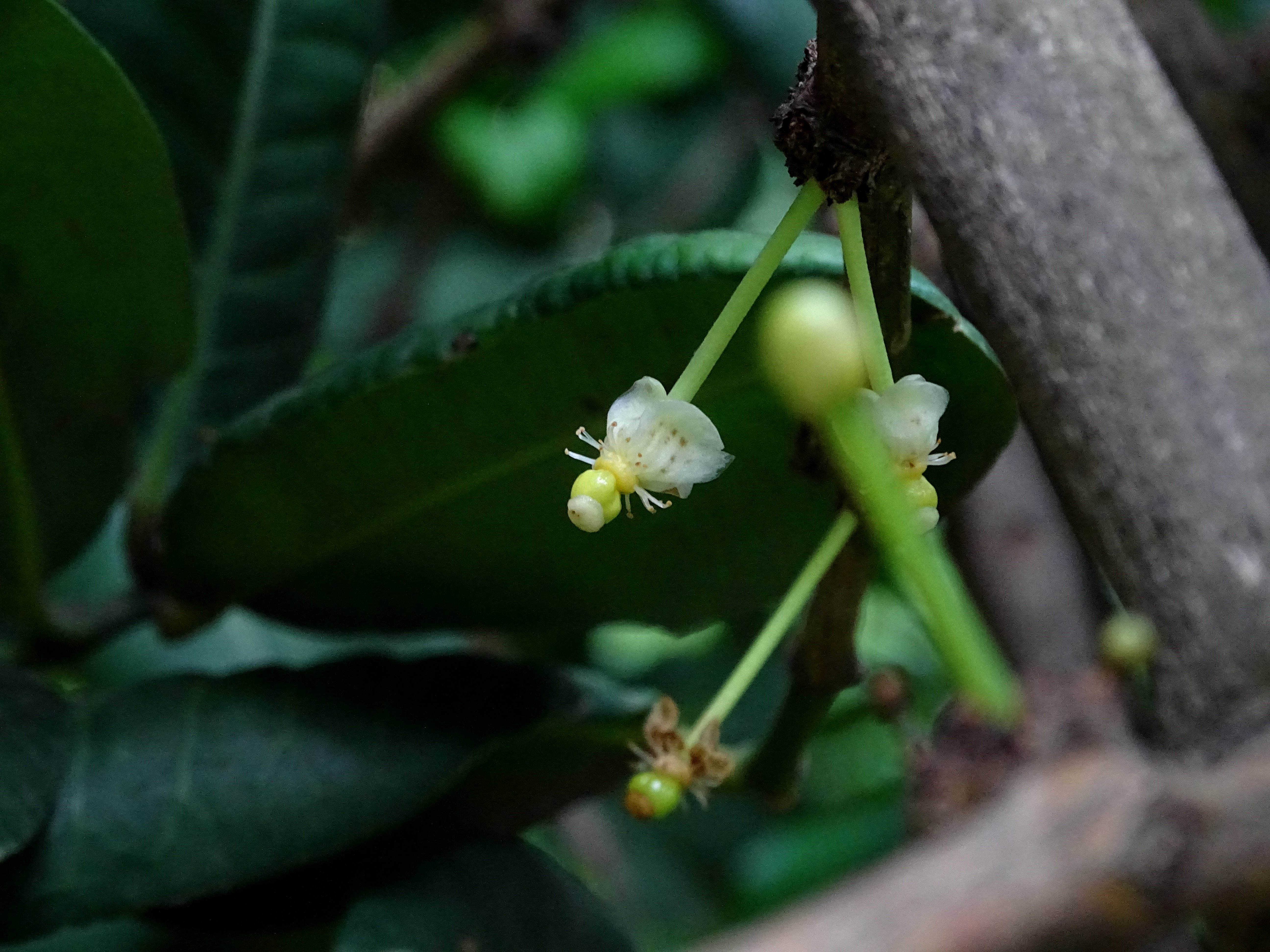 African Mangosteen (Garcinia livingstonei) seen in Cubbon Park Bangalore